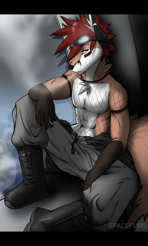 Clyde Rouge drawn by Linni-Fight